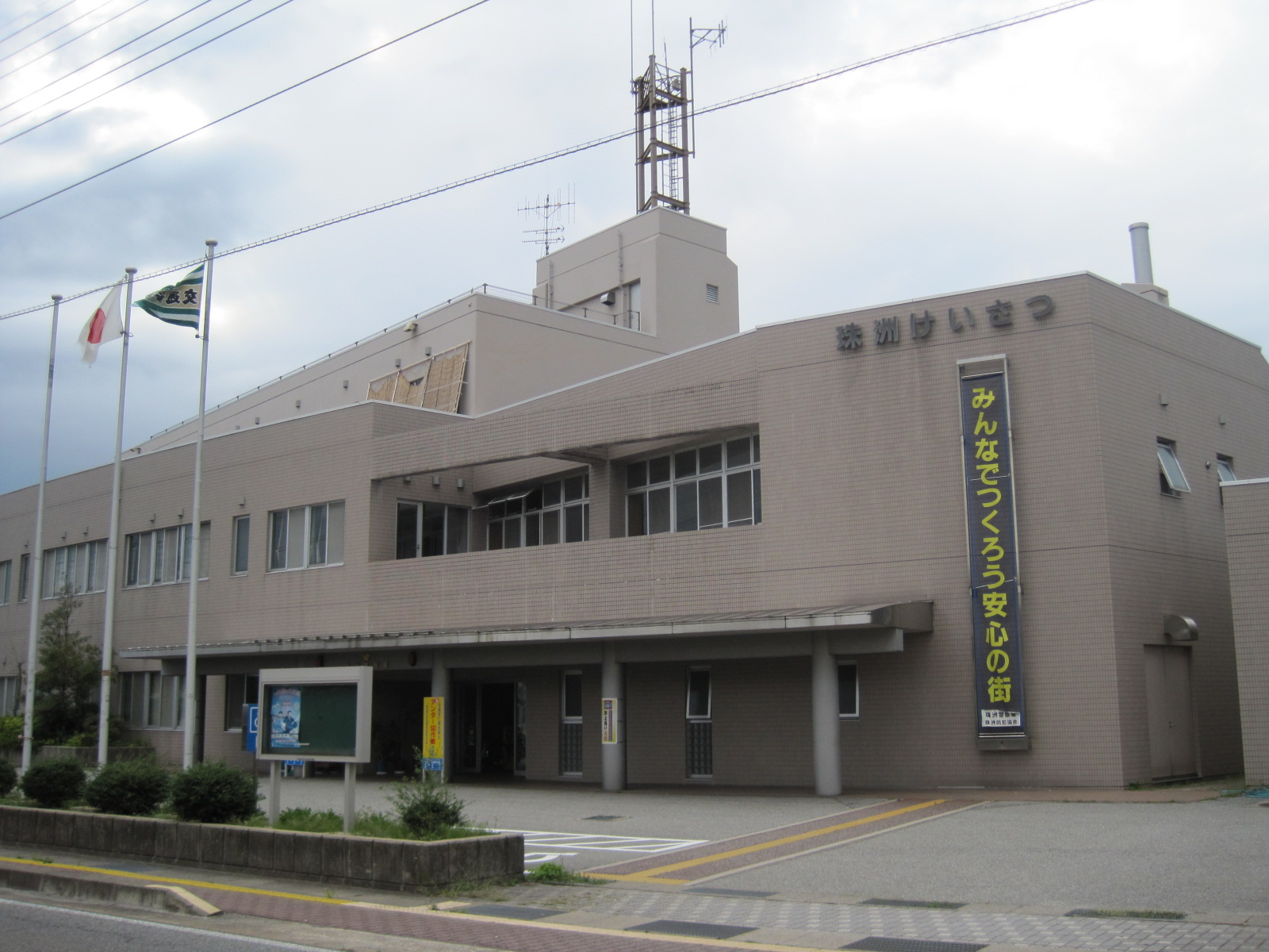 Suzu Police Station (Suzu city, Ishikawa prefecture, Japan)